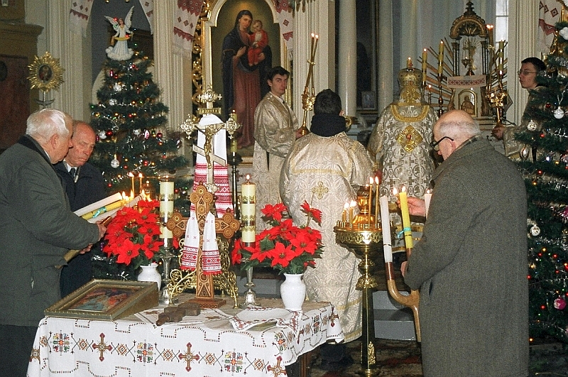 Holy water in Eastern Christianity. Trikirion and dikirion (back), and "King Candles" (right), being held by subdeacons during the blessing of holy water. Sanok.